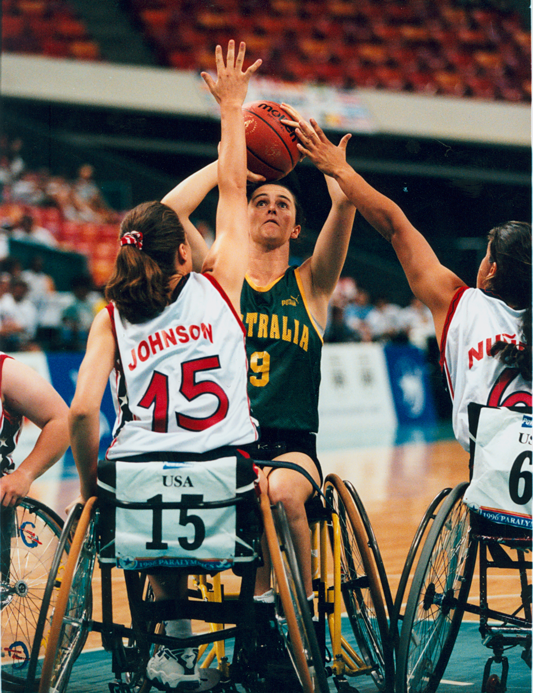 Australian women's wheelchair basketball player Liesl Tesch lines up a shot in the game against the USA at the 1996 Atlanta Paralympic Games. Josie Johnson and Ruth Nunez defend.